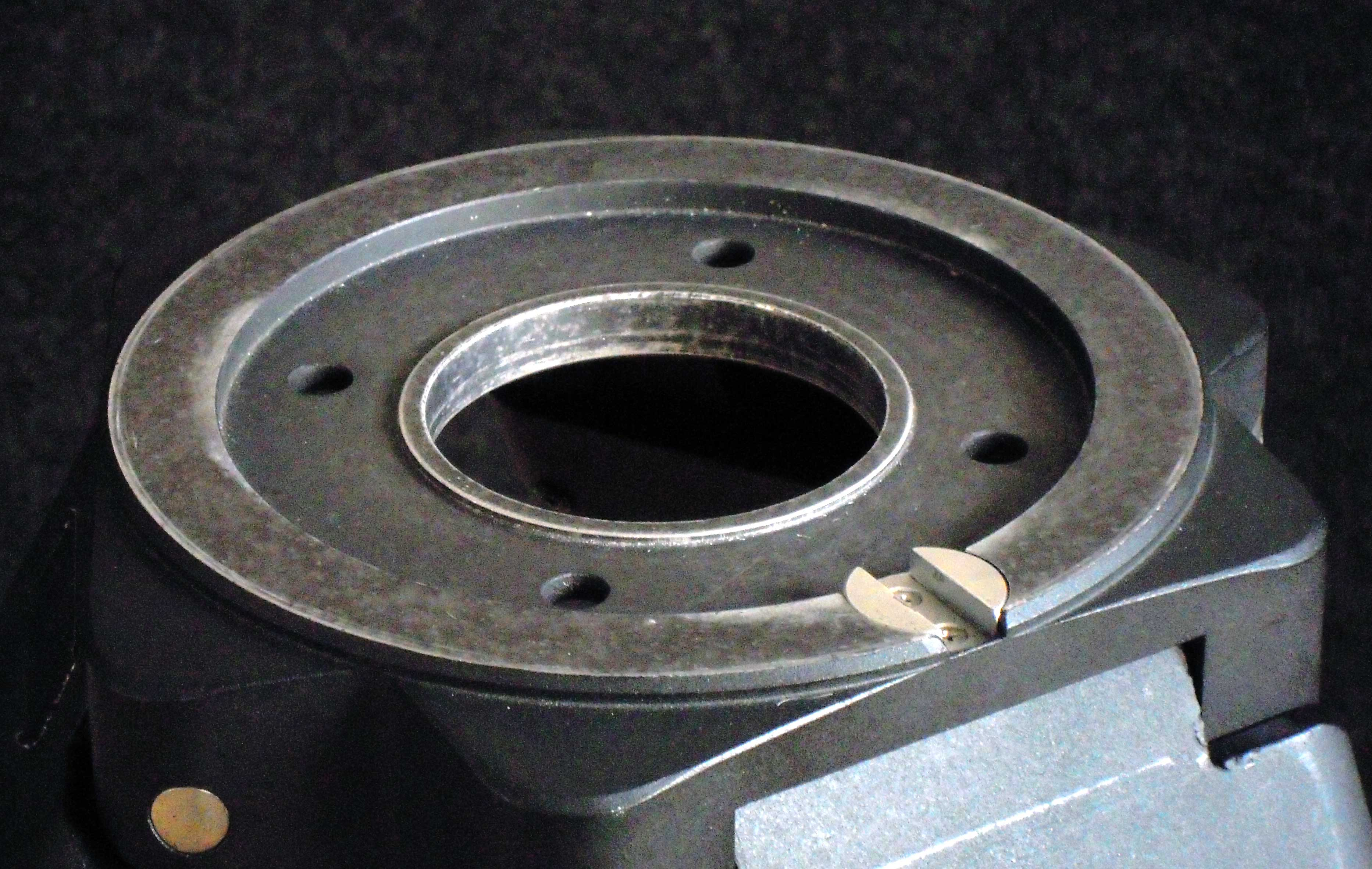 Mitchell Base on a tripod for heavy duty Heads